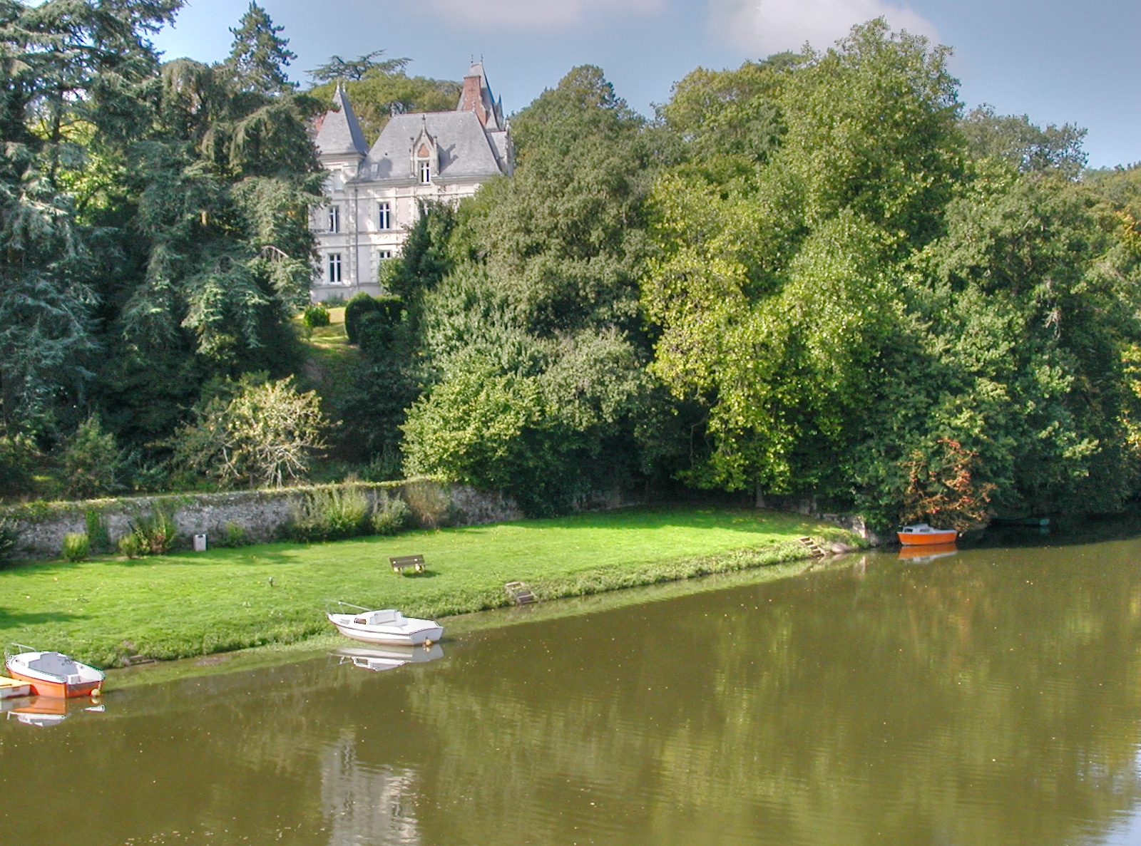 Portillon castle in Vertou